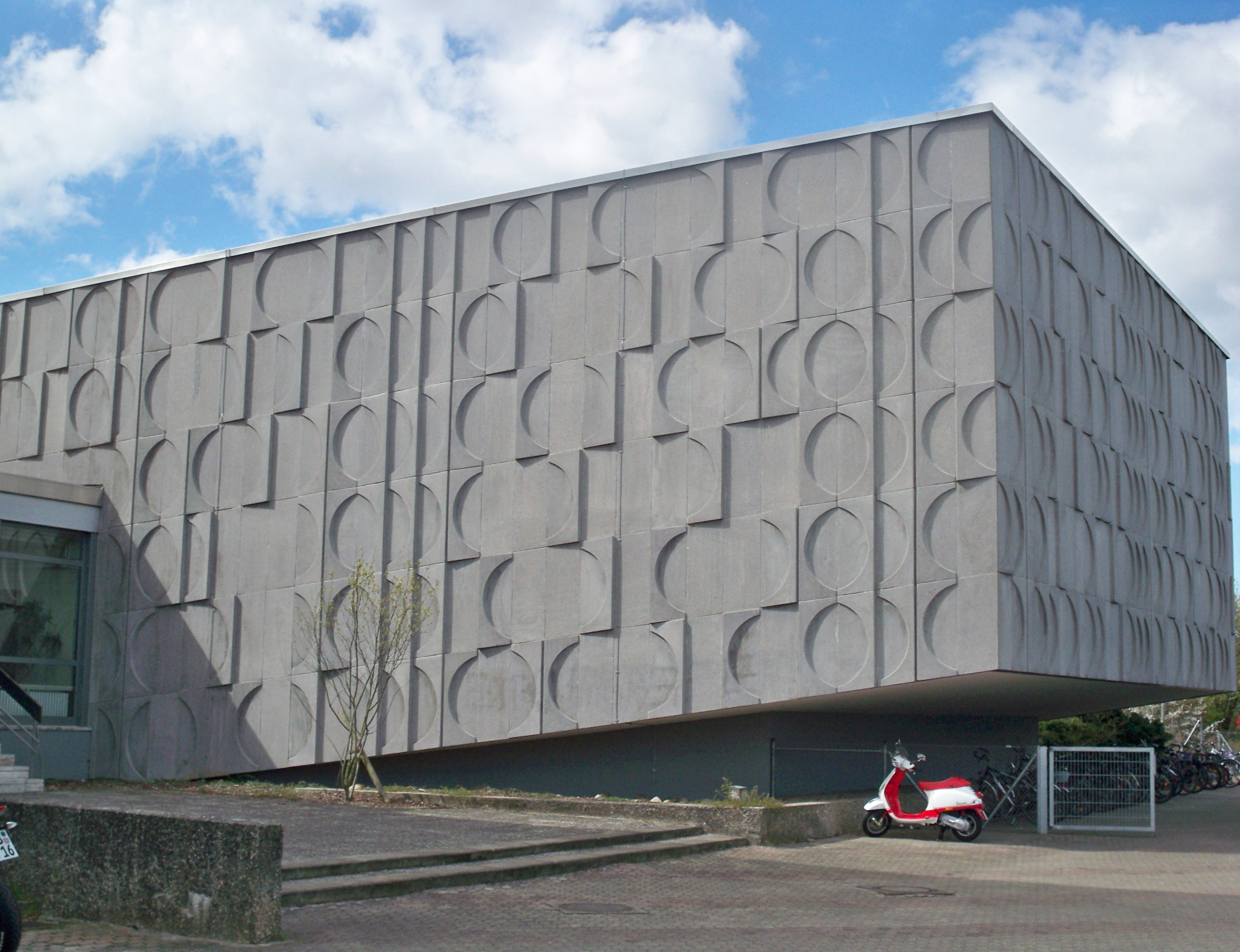 Outer wall of the assembly hall of the Theodor-Heuss-Gymnasium Wolfsburg, Germany, by Peter Szaif